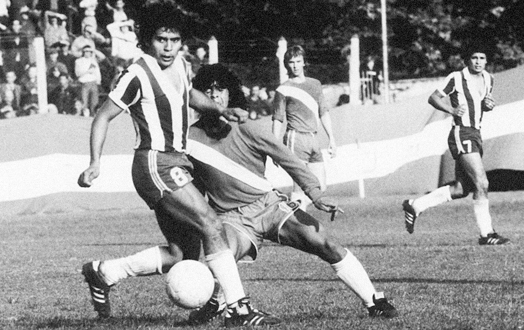 Diego Maradona making his famous nutshell in his debut with Argentinos Juniors vs. Talleres de Córdoba.